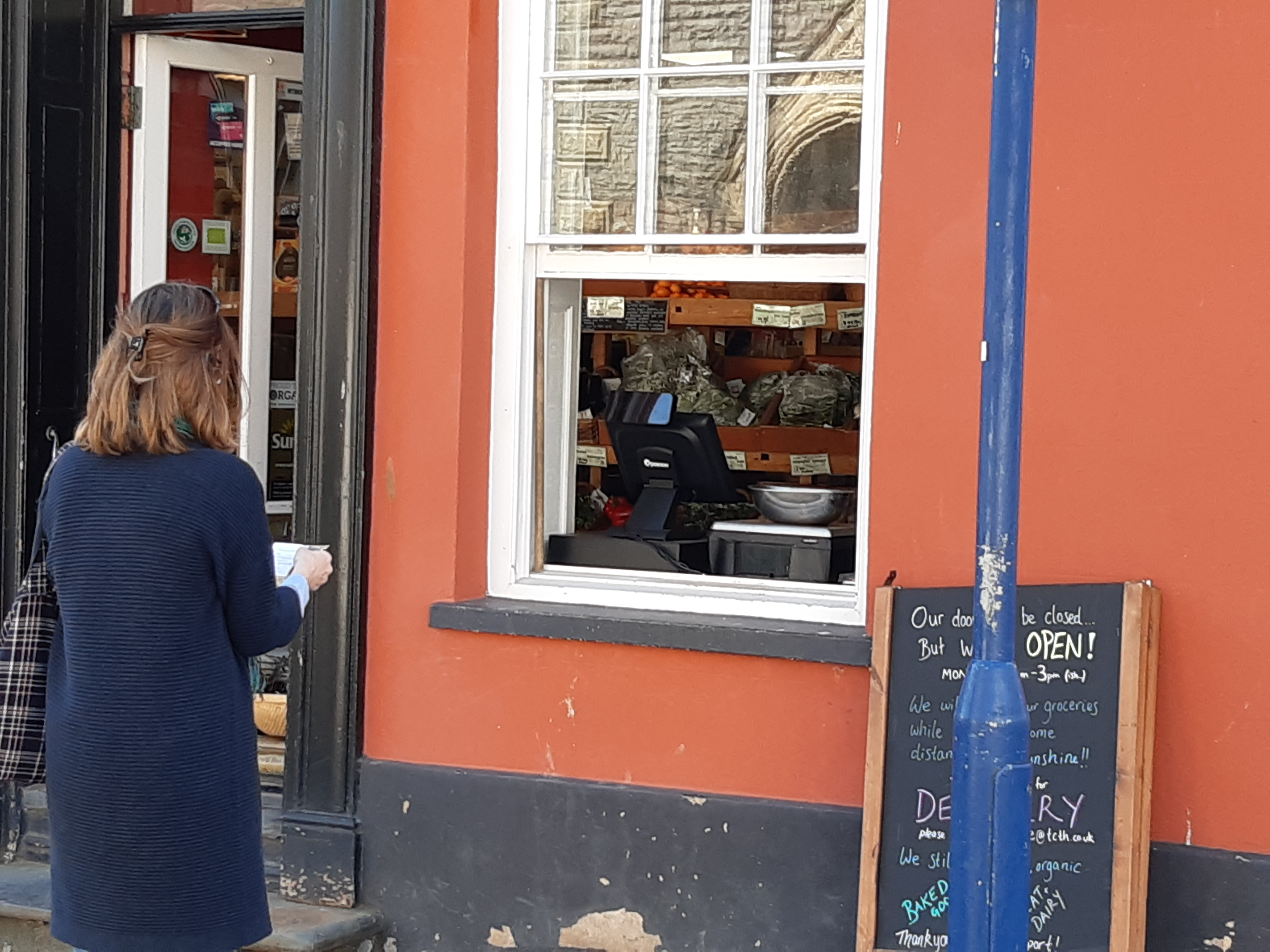 COVID-19 customer queueing Treehouse Shop Baker St Aberystwyth